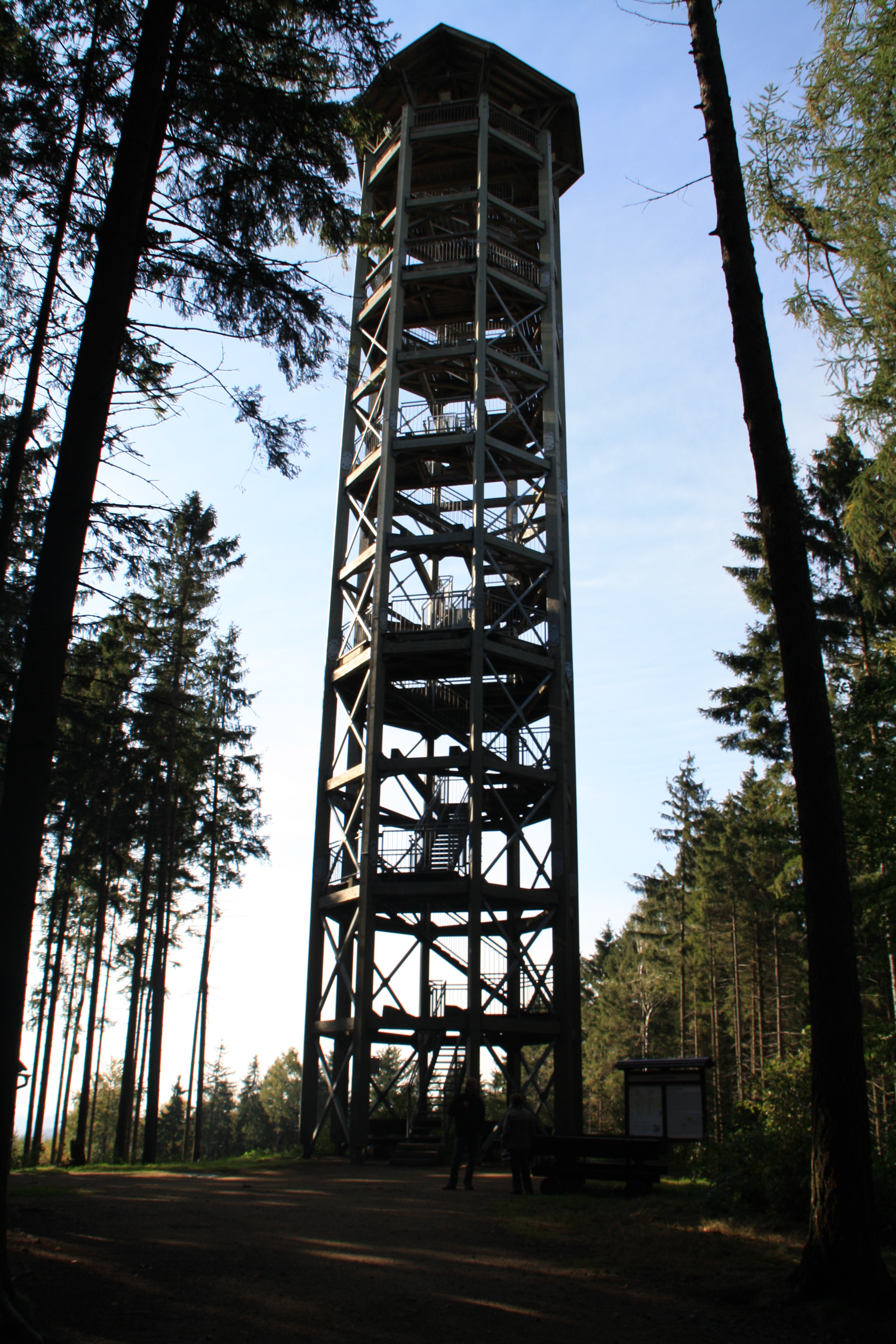 Observation tower on Weifberg near Hinterhermsdorf (Saxon Switzerland)